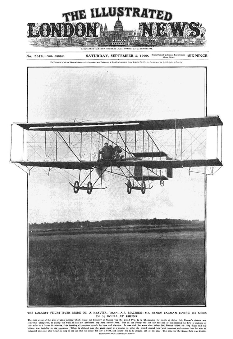 "The longest flight ever made on a heavier-than-air machine; Mr.Henry Farman flying 116 miles in 3 hours at Rheims".